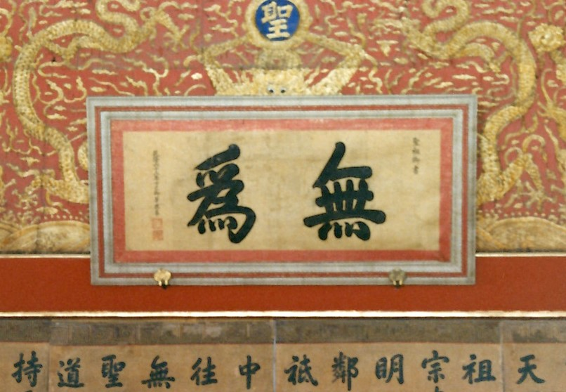 Signboard "Wuwei" in Emperors palace, Beijing